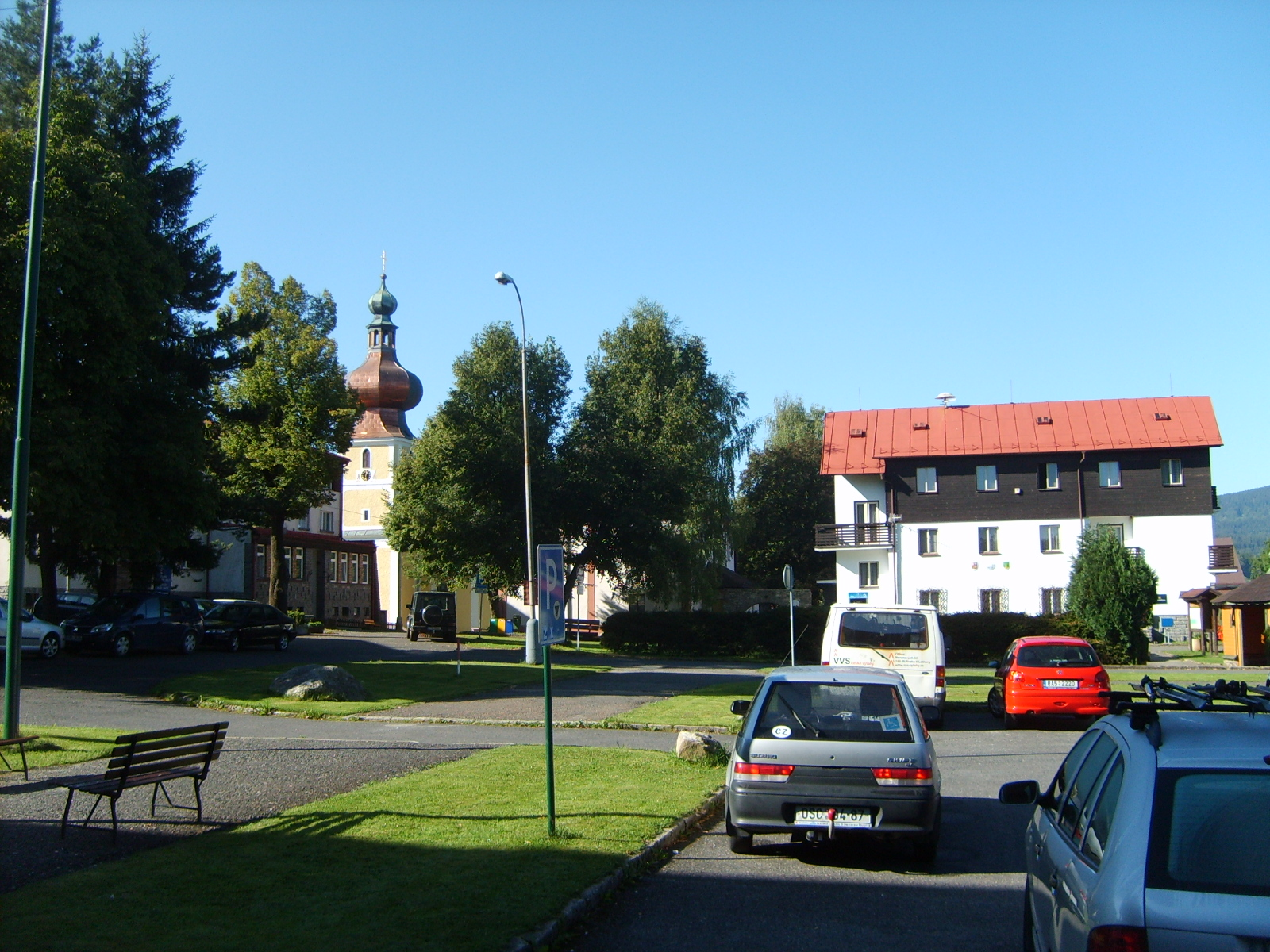 Centre of Srní municipality - church and municipal authority.